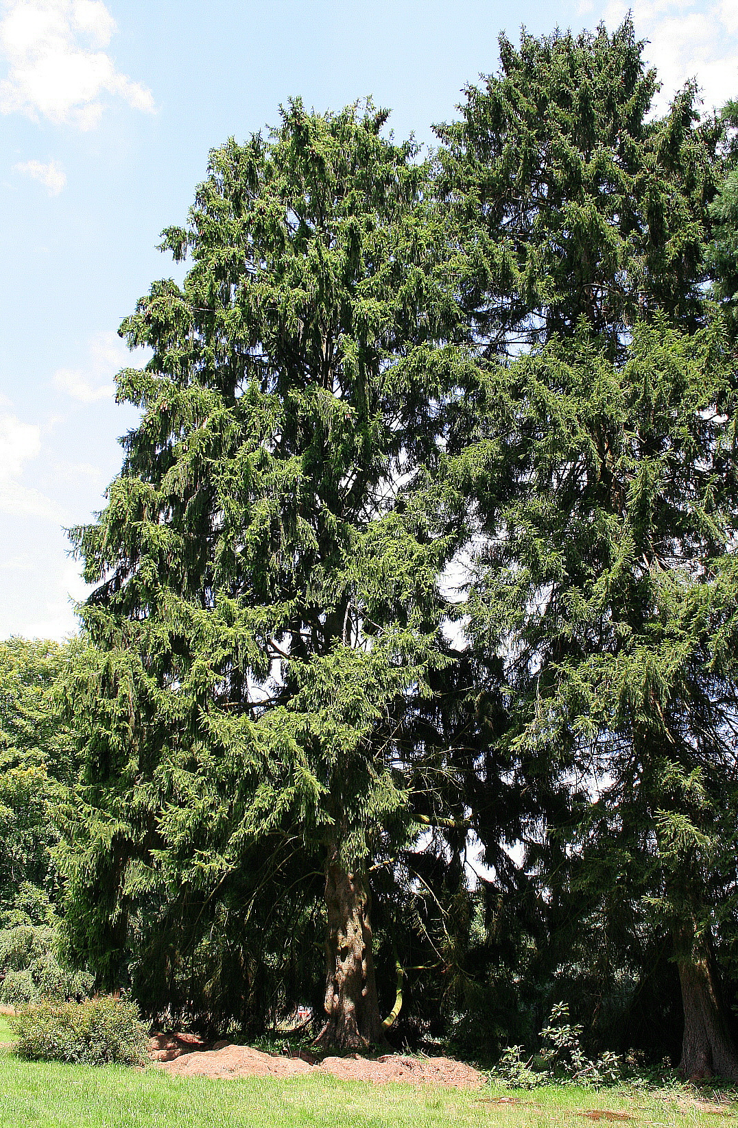 Norway Spruce ‘Aurea’ .